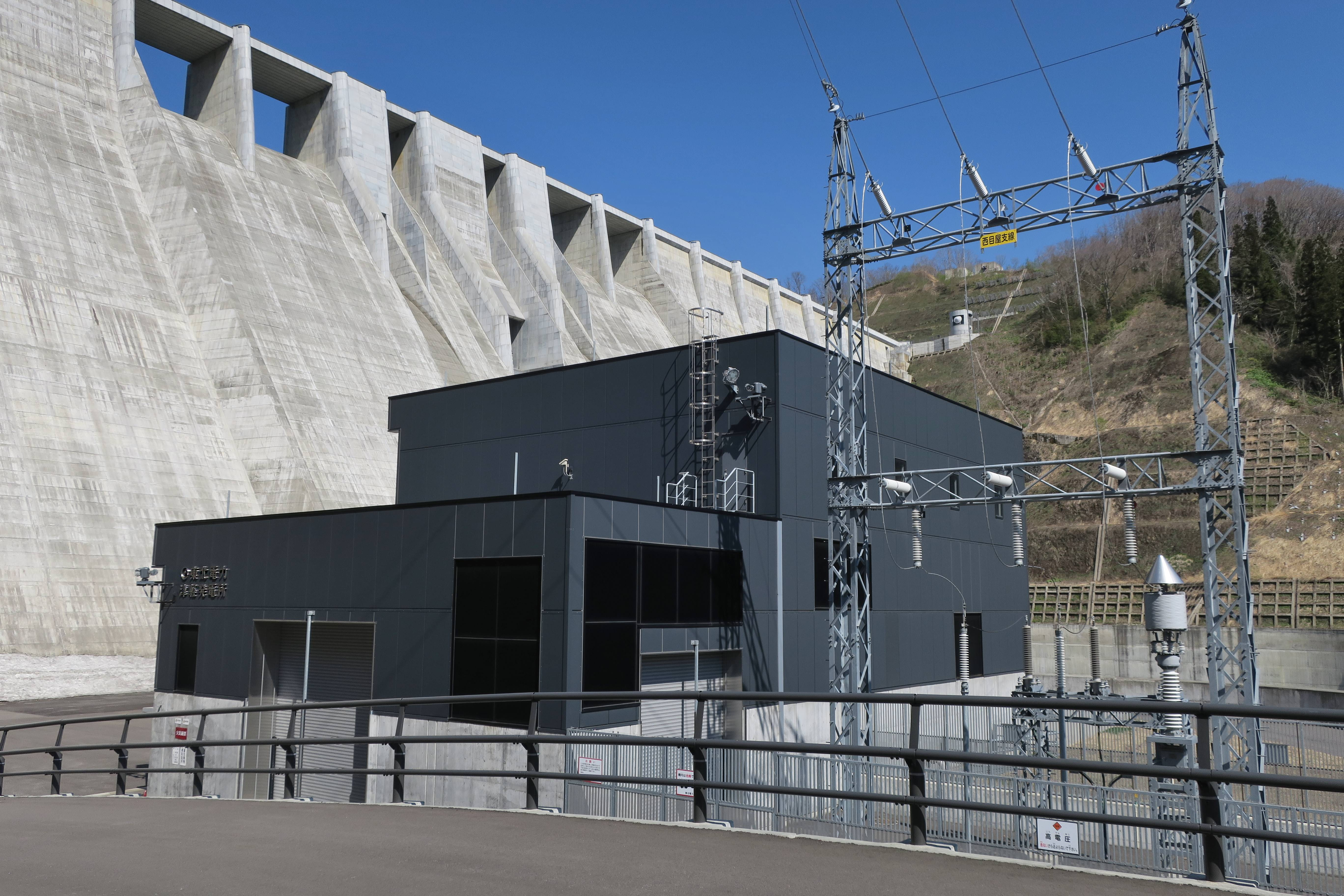 Tsugaru Dam (Nishimeya, Aomori).